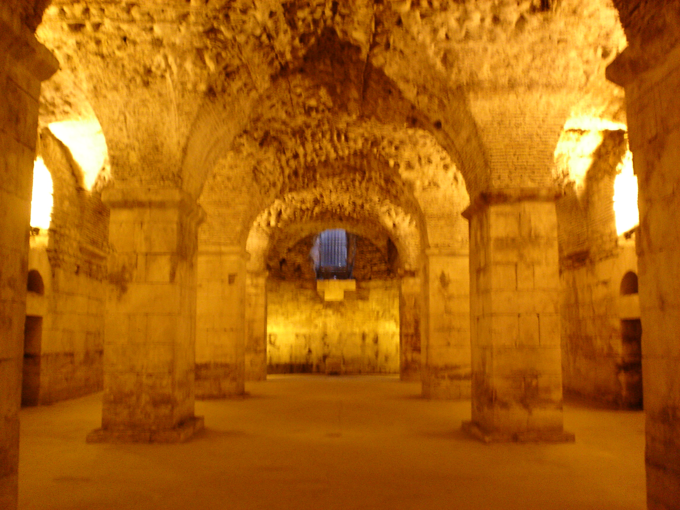 Basement of Diocletian's Palace